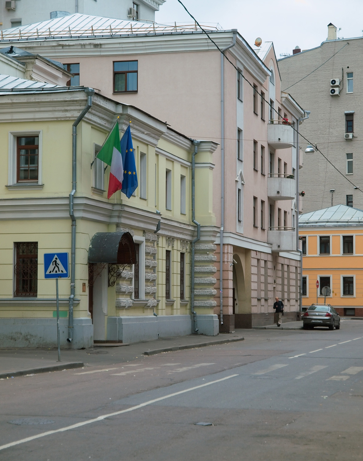 Moscow. Maly Kozlovsky Lane. The building with EU and Italian flags in the Italian Institute of Culture (Istituto Italiano di Cultura).